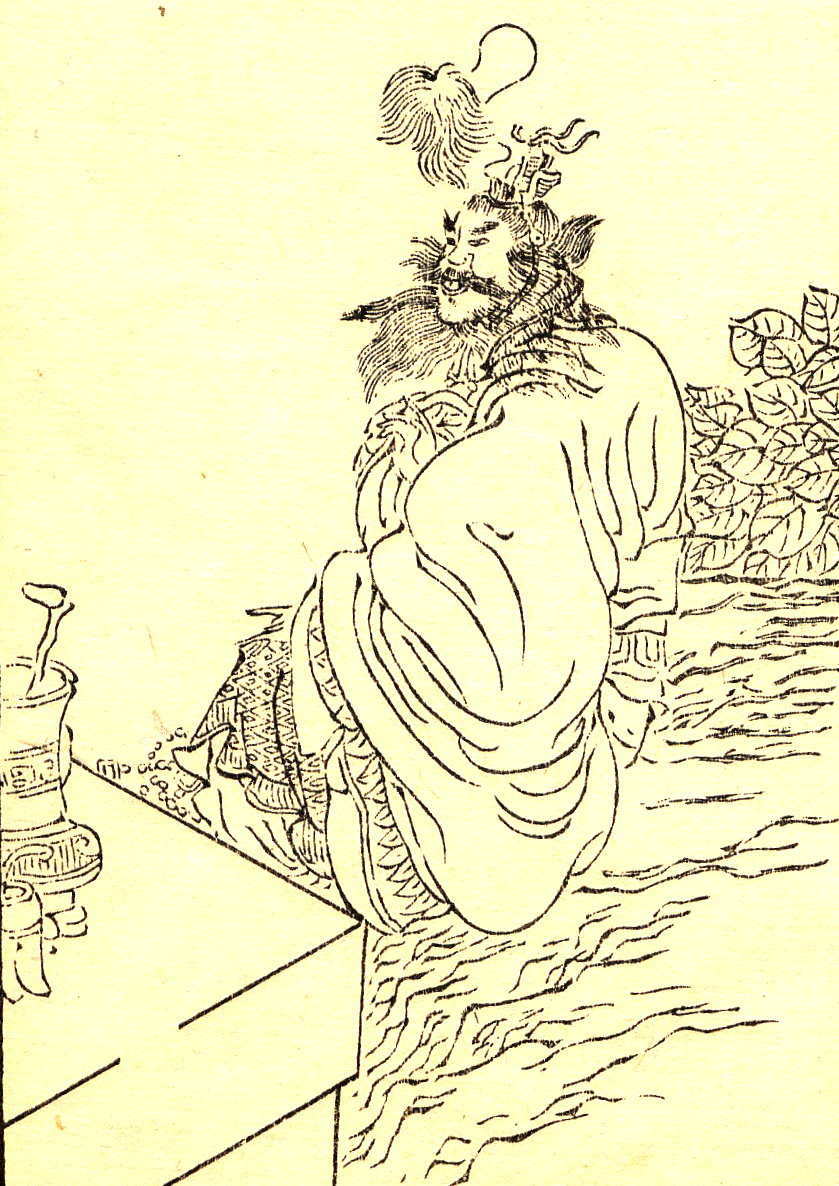 Zhang Daoling （張道陵), also commonly called Zhang Ling, was an Eastern Han dynasty (2nd Century CE) Taoist hermit who founded the Zhengyi Mengwei Tianshi Dao．This portraiture was carried on the book of the name "列仙酒牌",and was published in 1923.